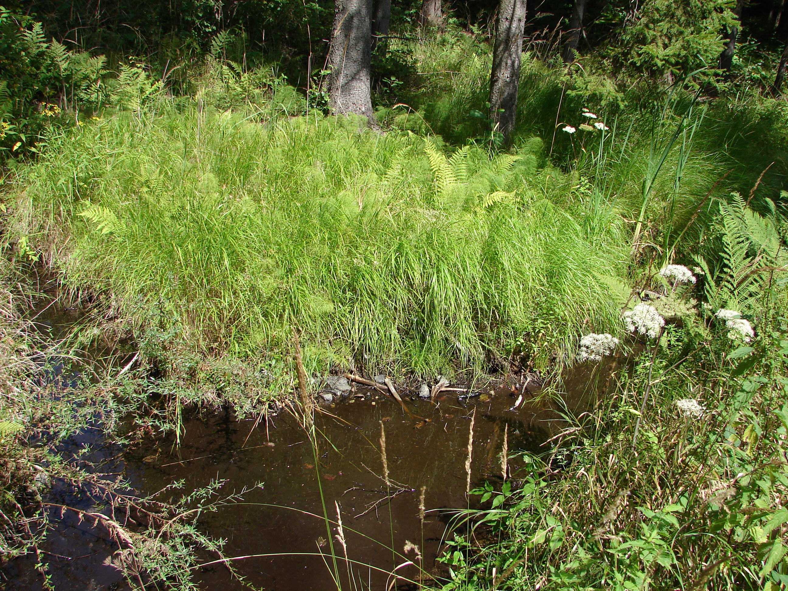 Natural monument Lukšovská, Jihlava District, Czech republic.